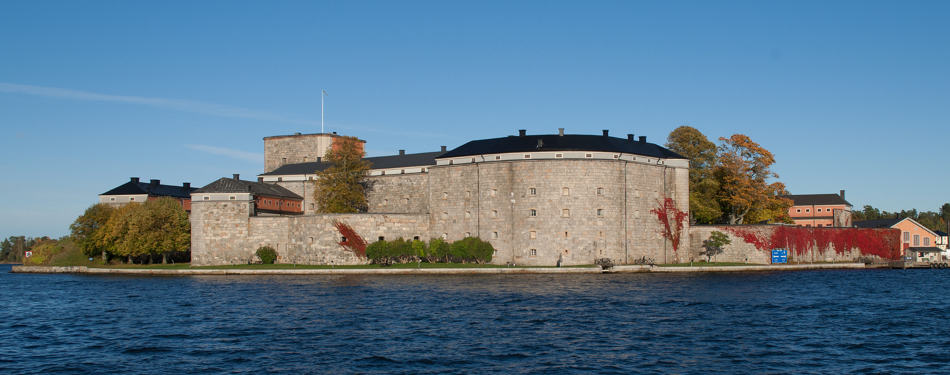 In October 2012, taken from Vaxholm